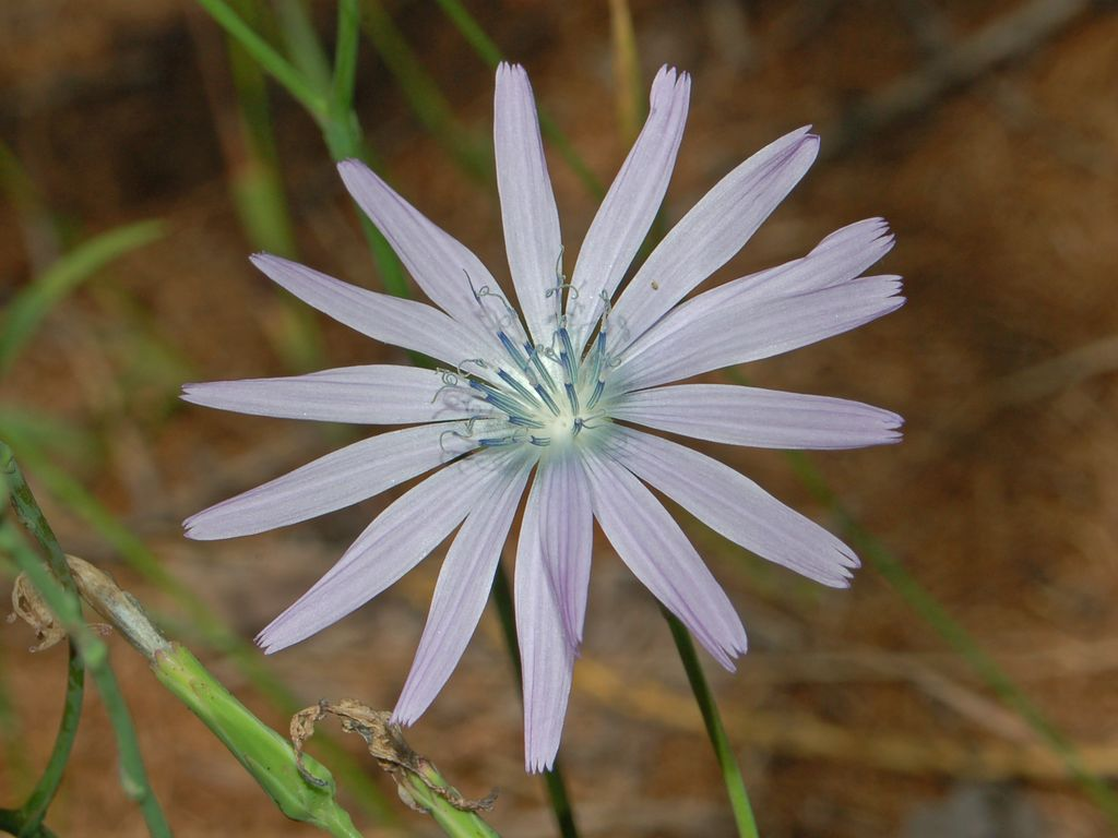 Lactuca perennis - Valle Argentera, Torino, Italy